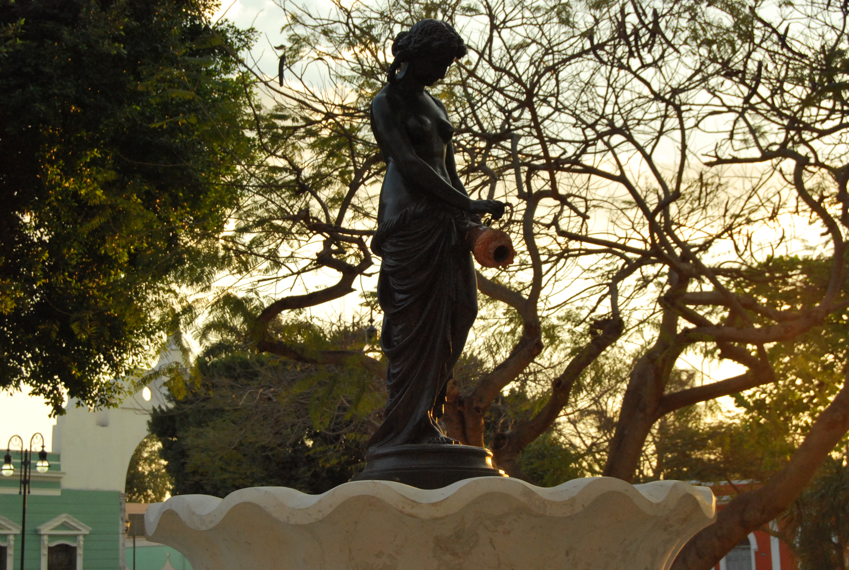 Statue La Negrita in the San Juan's font. It was brought from France in the beginnings of the XX century.